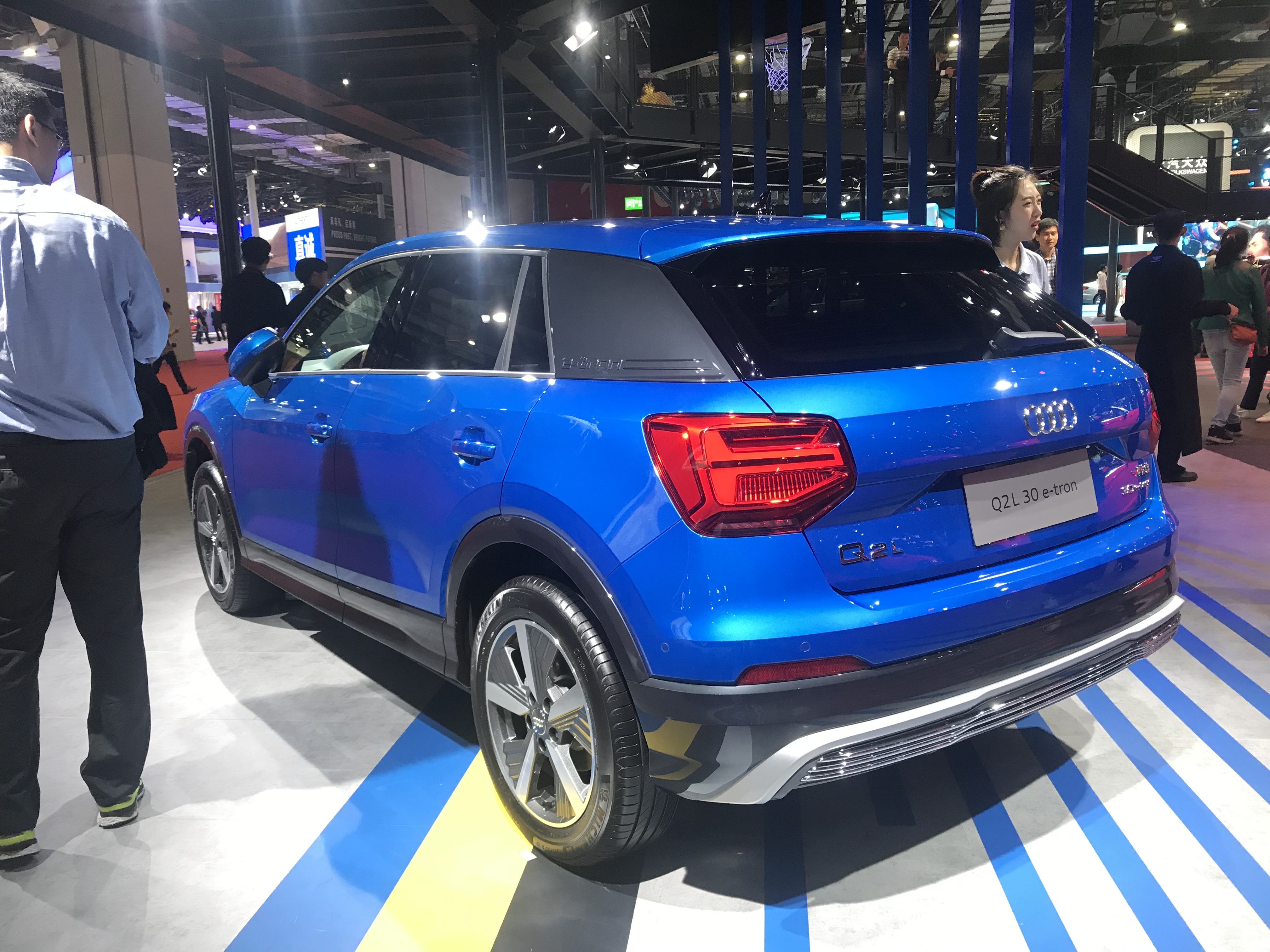 Audi Q2L e-tron rear